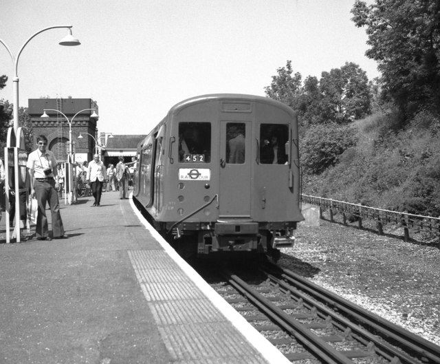 Chesham station, Buckinghamshire A London Transport Metropolitan Line train awaits departure from the outer terminus of the line in rural Buckinghamshire. This section of track was not electrified until 1960.